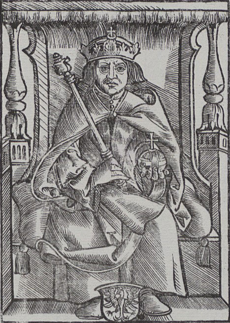 Alexander Rex Беларуская (тарашкевіца): Аляксандар